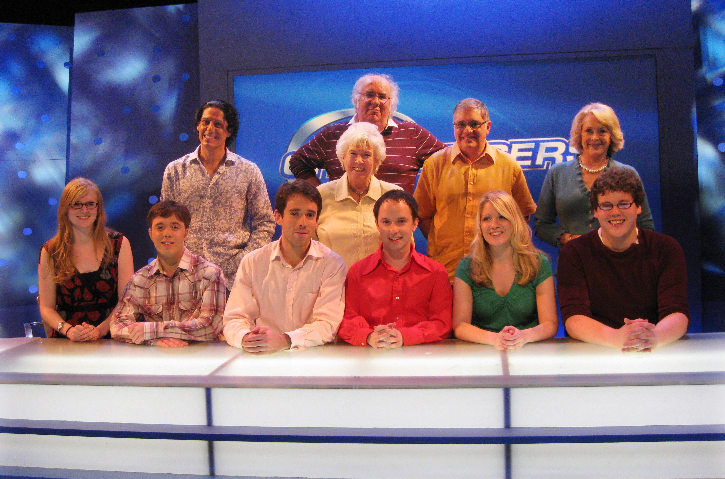 John Gethin, Jim Grant, Rachel Parris, Alex Steer, Tom Wilkinson and Lauren Johnson from the Oxford Imps Improvised Comedy Troupe are contestants on BBC2 daytime quiz show 'Eggheads'